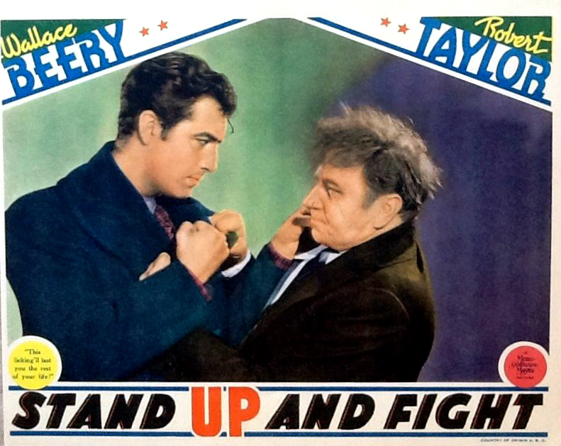 Lobby card for the 1939 American film Stand Up and Fight.